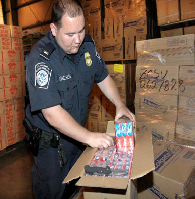 A U.S. Customs and Border Protection officer opening a case of toothpaste.